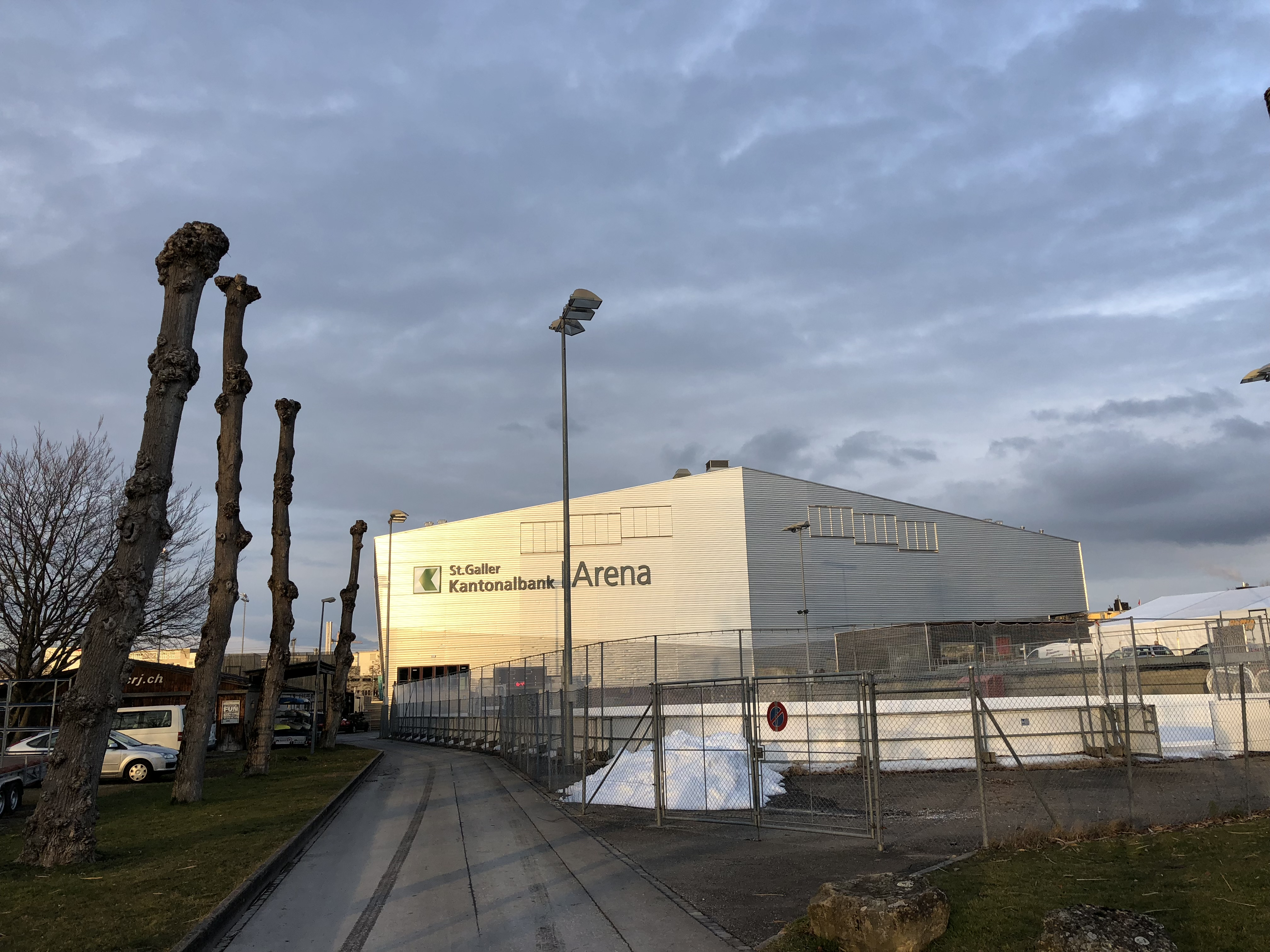 St. Galler Kantonalbank Arena – ice hockey stadium in Rapperswil